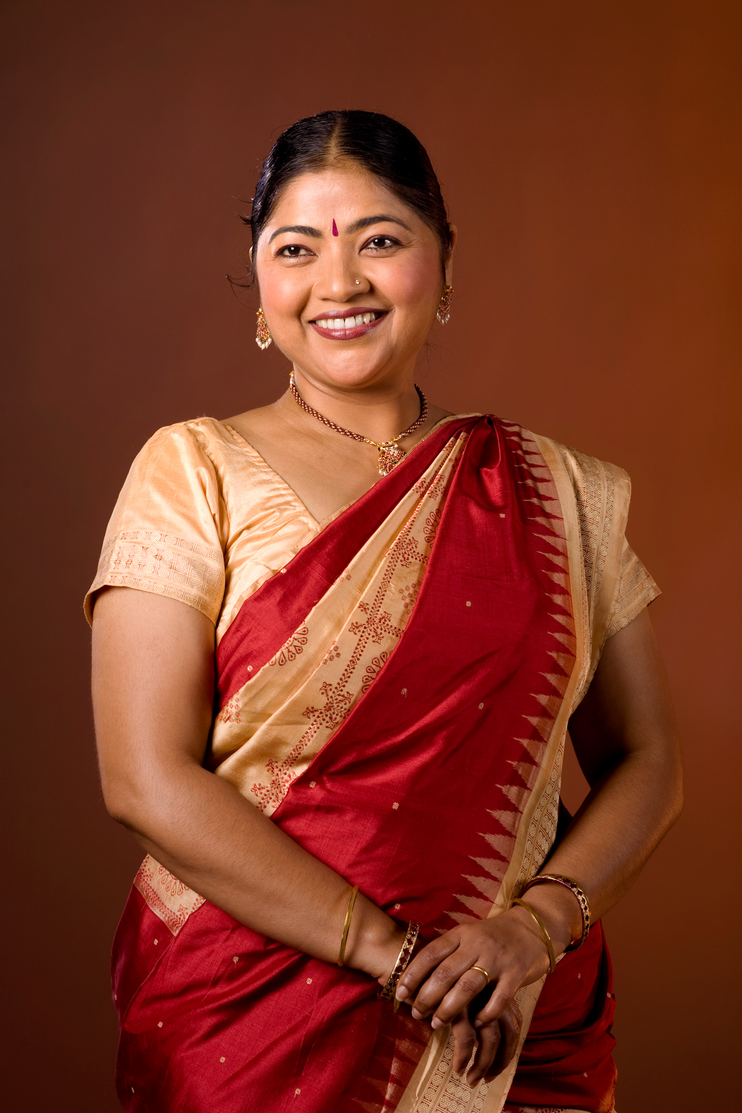 Odissi Guru Jyoti Rout